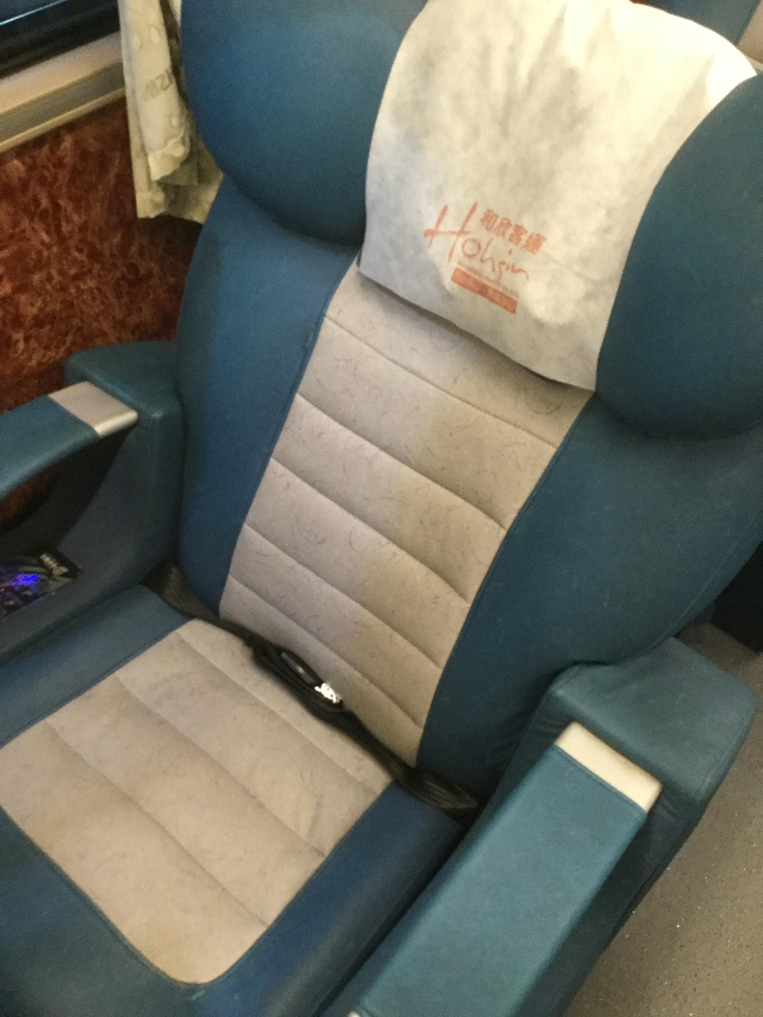 Taiwanese, Ho hsin Bus First Business class seat.